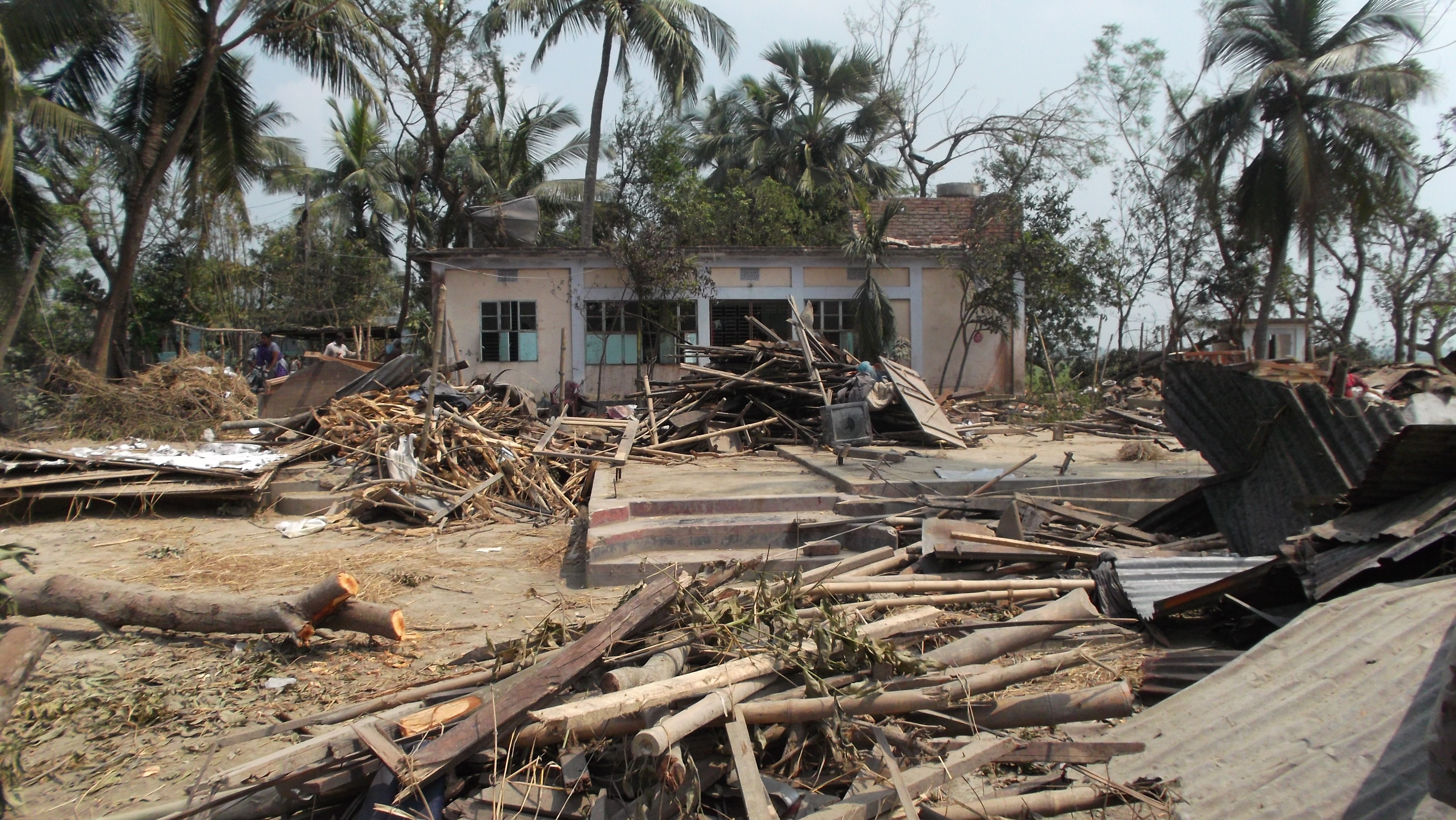 On March 22, 2013 a deadly tornado that took place in the Brahmanbaria District of Bangladesh. The tornado struck 20 villages with along an 8 kilometres (5.0 mi), traveling at a speed of 70 kilometres per hour (43 mph) killing 31 people and injured approximately 500. The worst damage occurred in the Bijoynagar and Akhaura, Brahmanbaria Sadar Upazilas of this district.Thousands of trees and utility poles were toppled and thousands of peoples were left homeless. The tornado disrupted both train and road communication, which interrupted rescue operations. Part of jail house of this district was collapsed, resulting in the death of one guard. Many crops, mostly consisting of rice, were damaged as well. Both Prime minister Sheikh Hasina and opposition leader Khaleda Zia visited the impacted areas to meet the affected people and distribute relief.